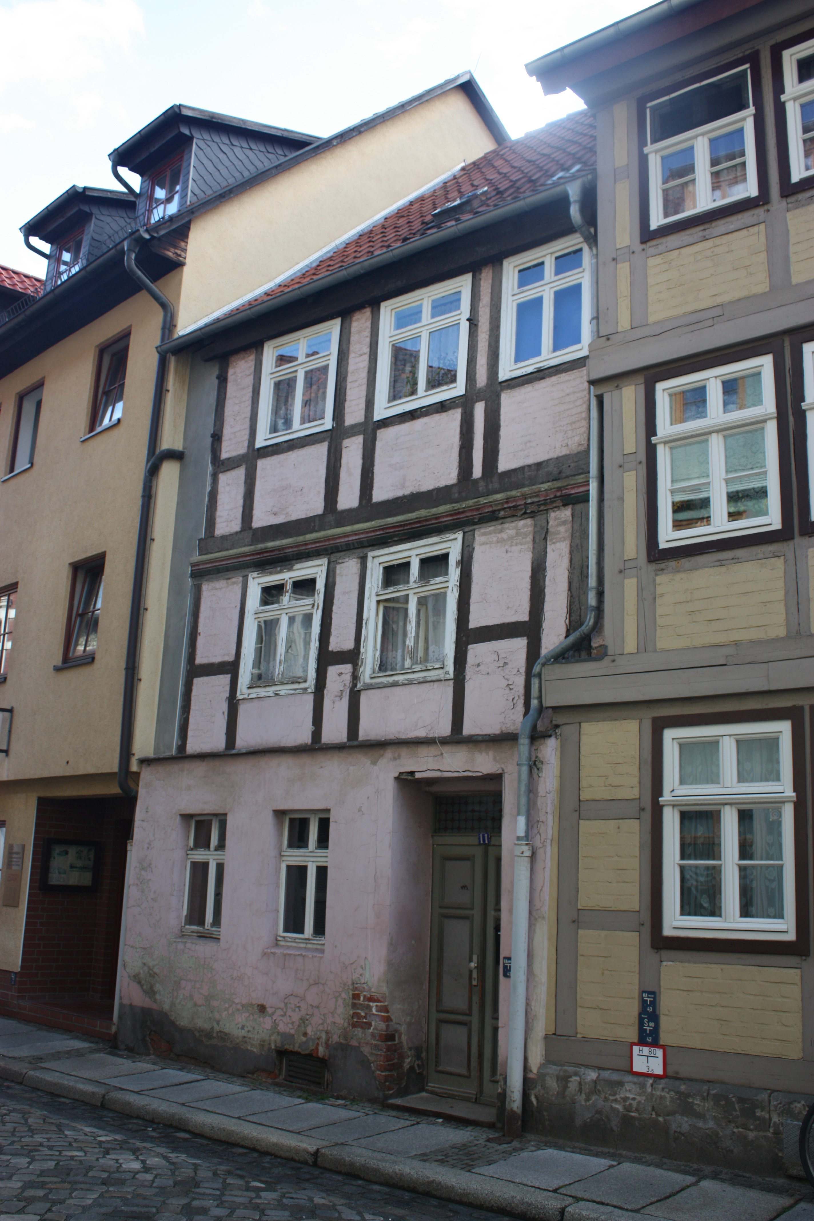 This is a photograph of an architectural monument.It is on the list of cultural monuments of Quedlinburg Hohe Straße 11